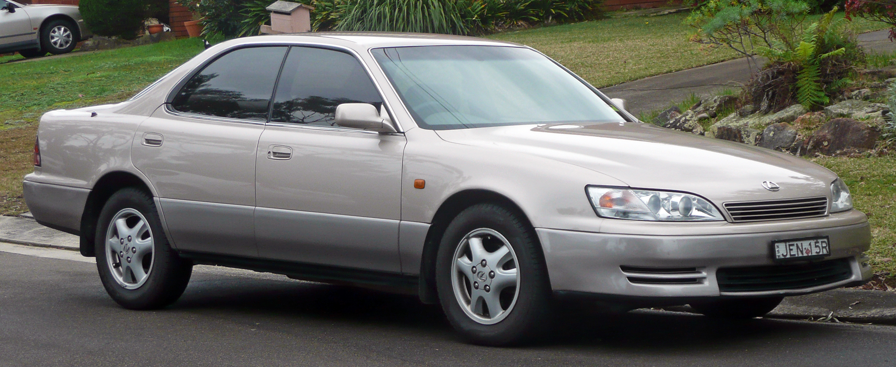 1992–1994 Lexus ES 300 (VCV10R) sedan. Photographed in Kirrawee, New South Wales, Australia.